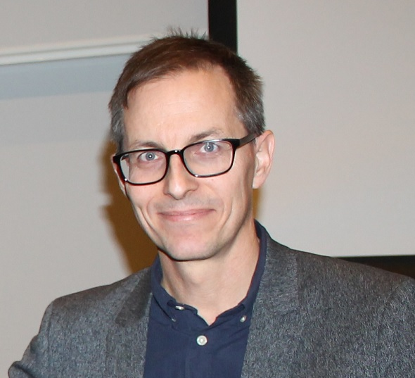 Norwegian writer and journalist, Per Kristian Bjørkeng